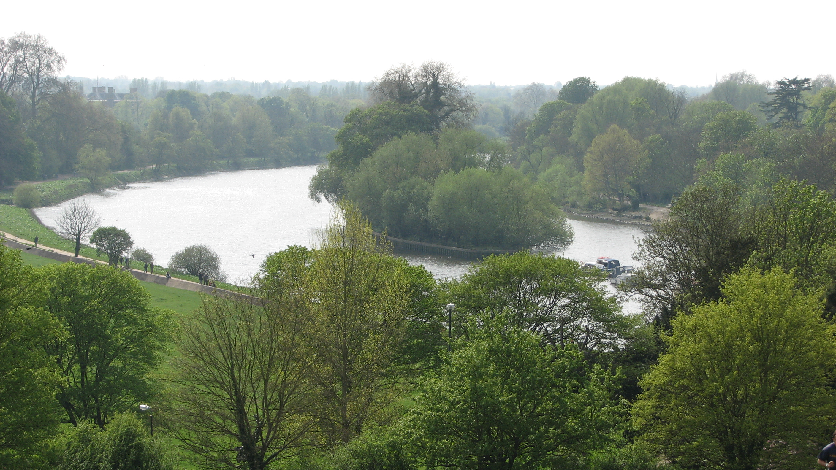 Looking towards Glover's Island in the River Thames from the Terrace Gardens, Richmond, London.